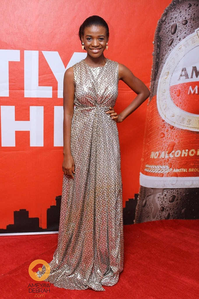 Tomi Odunsi at the 2014 Africa Magic Viewers Choice Awards